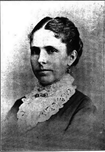 Sarah Carmichael Harrell (8 January 1844 - 1929), US educator and temperance reformer, born in Brookville, Indiana.